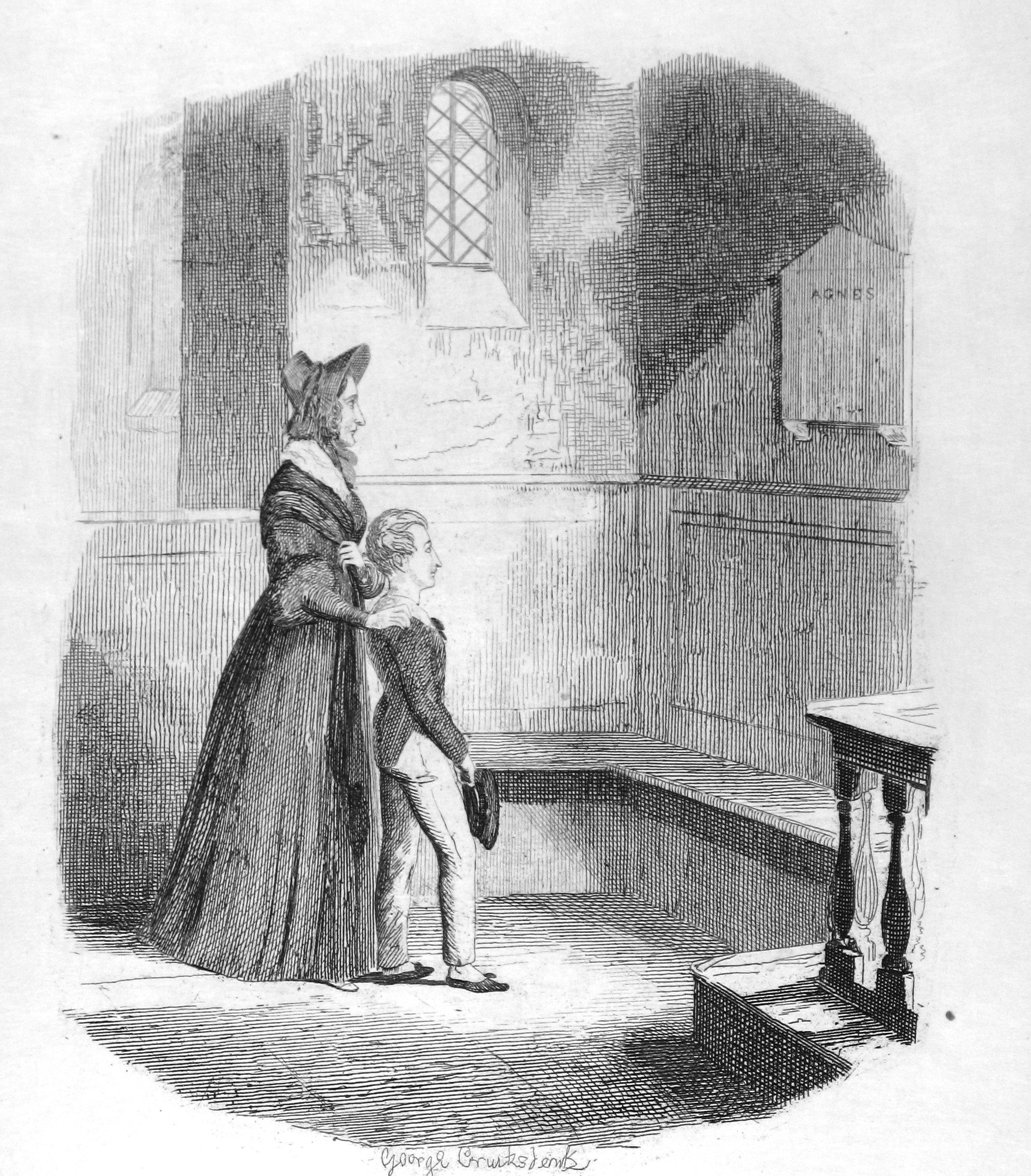 A photograph of an engraving in The Writings of Charles Dickens volume 4, Oliver Twist, titled "Rose Maylie and Oliver".